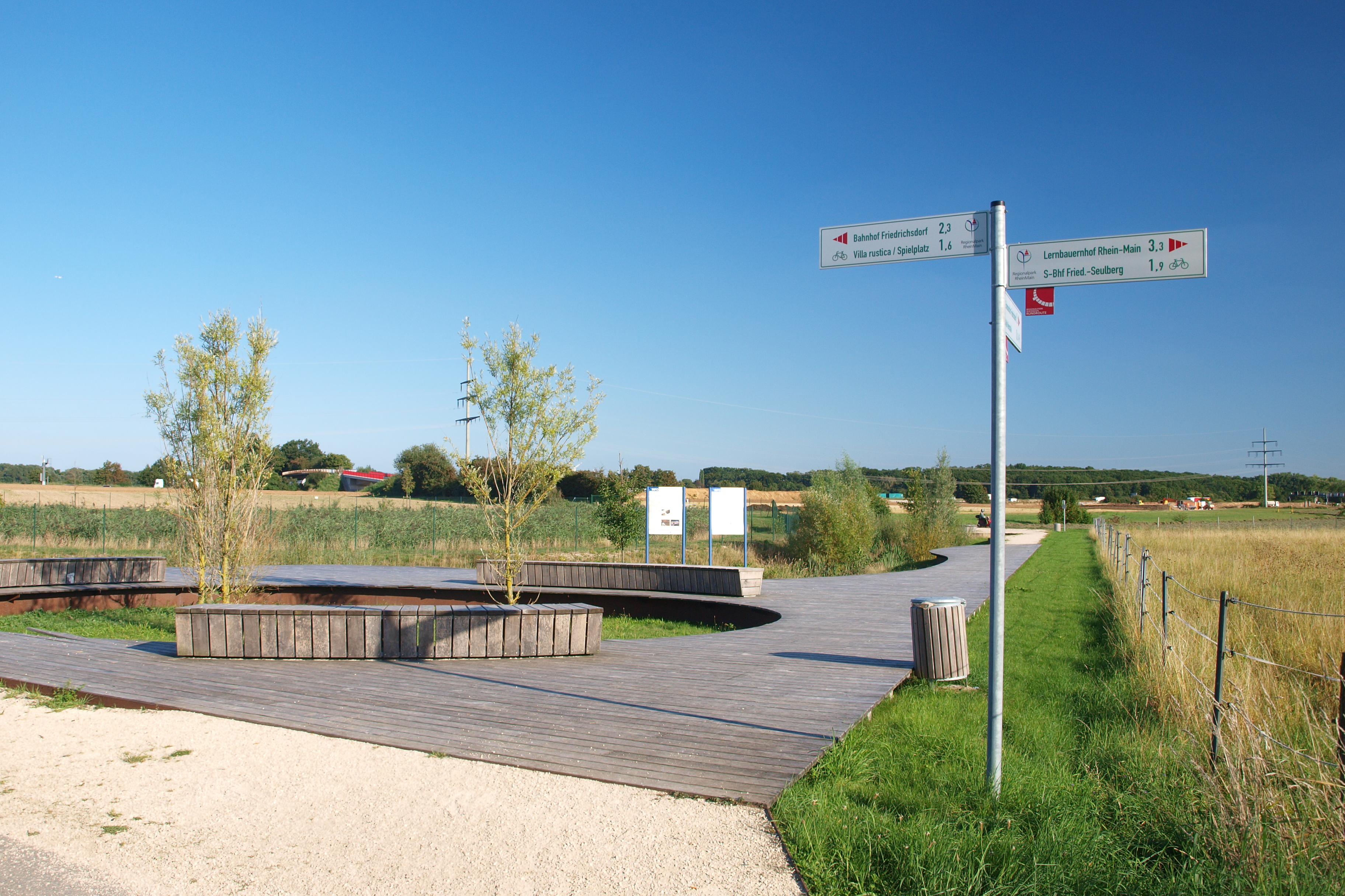 “Sun deck at the Rehlingsbach” on the Regionalpark Rahein-Main loop route near Friedrichsdorf-Seulberg